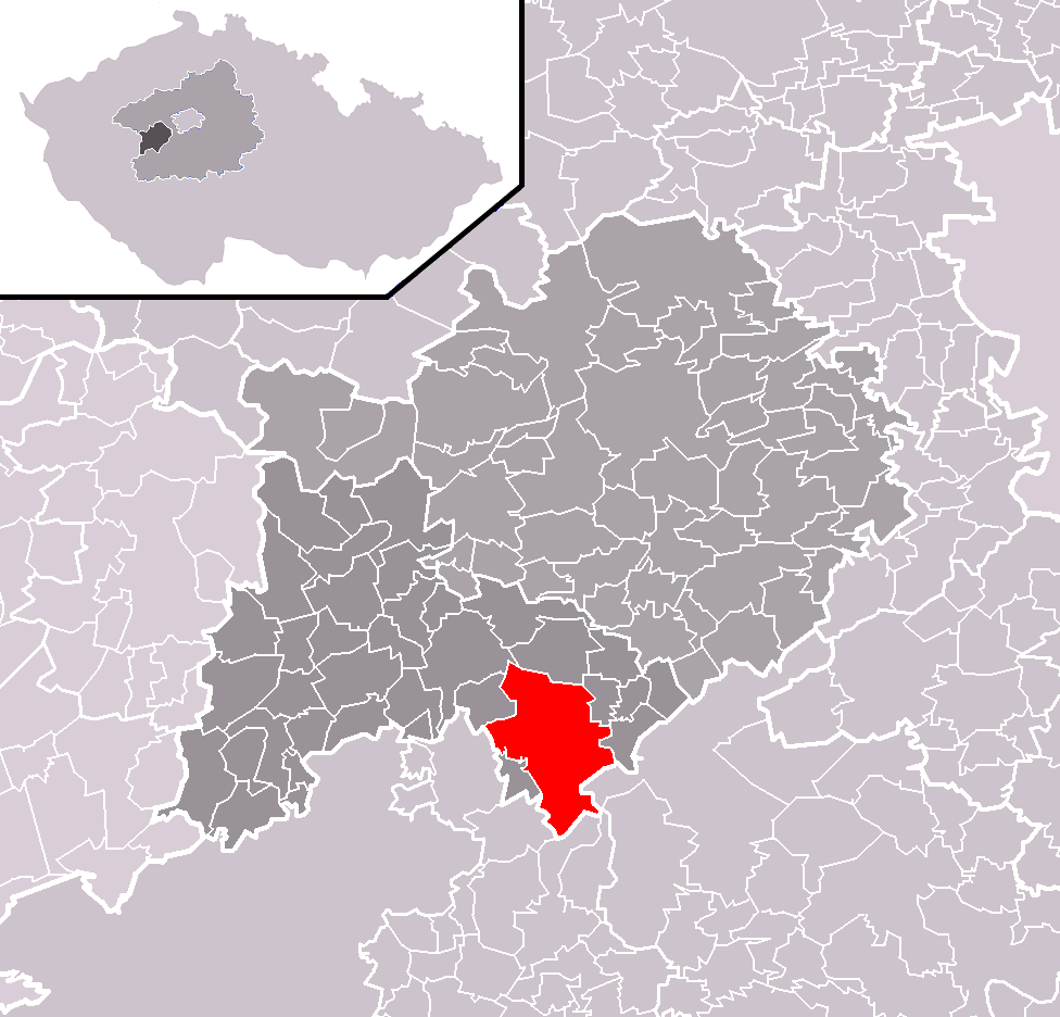 Location of Hostomice town within Beroun District and administrative area of Hořovice as a Municipality with Extended Competence.